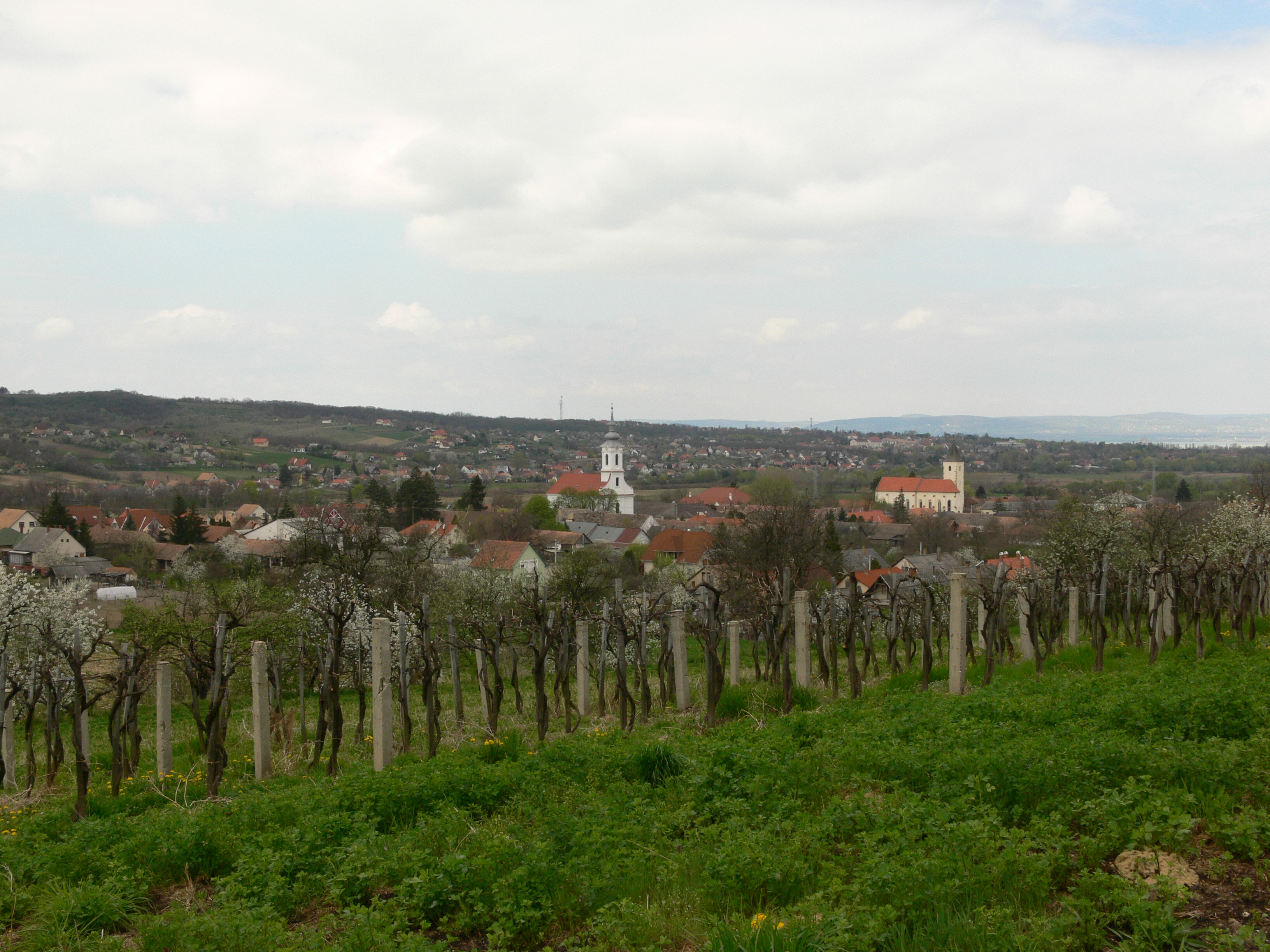 Panoramic view of Kőröshegy